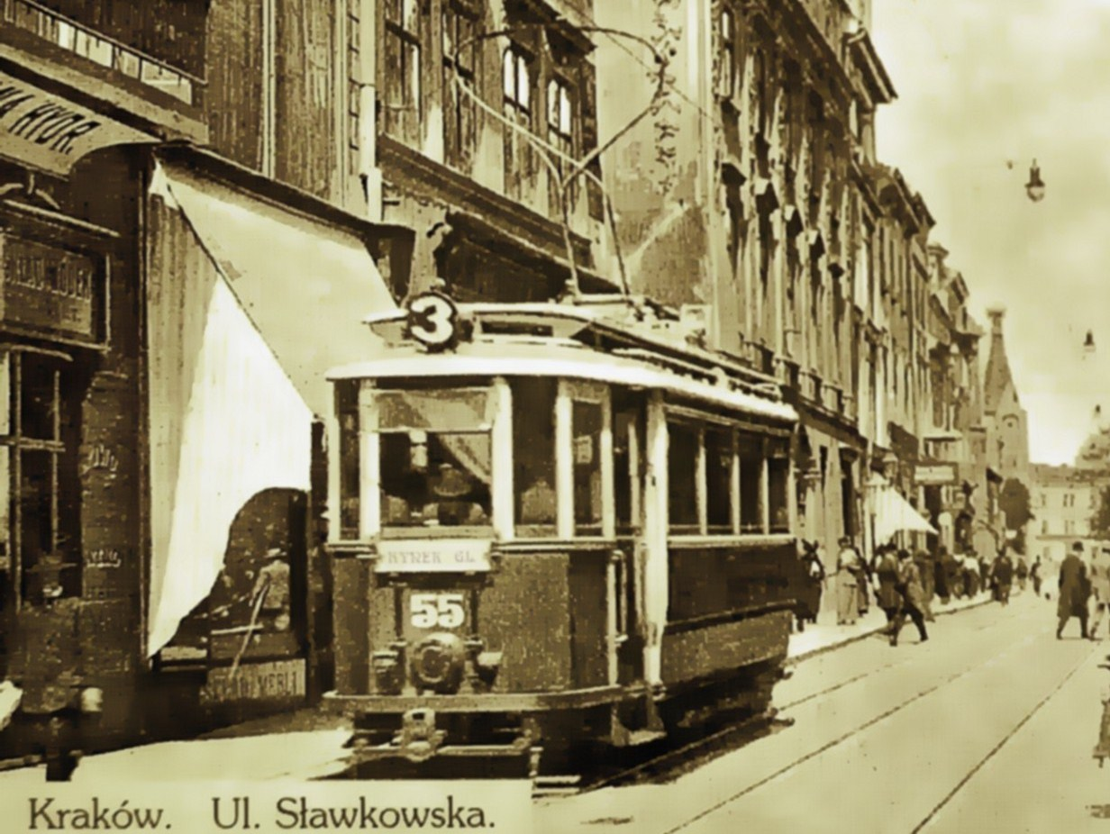 A Sanok SN1 tram in Kraków (Poland).